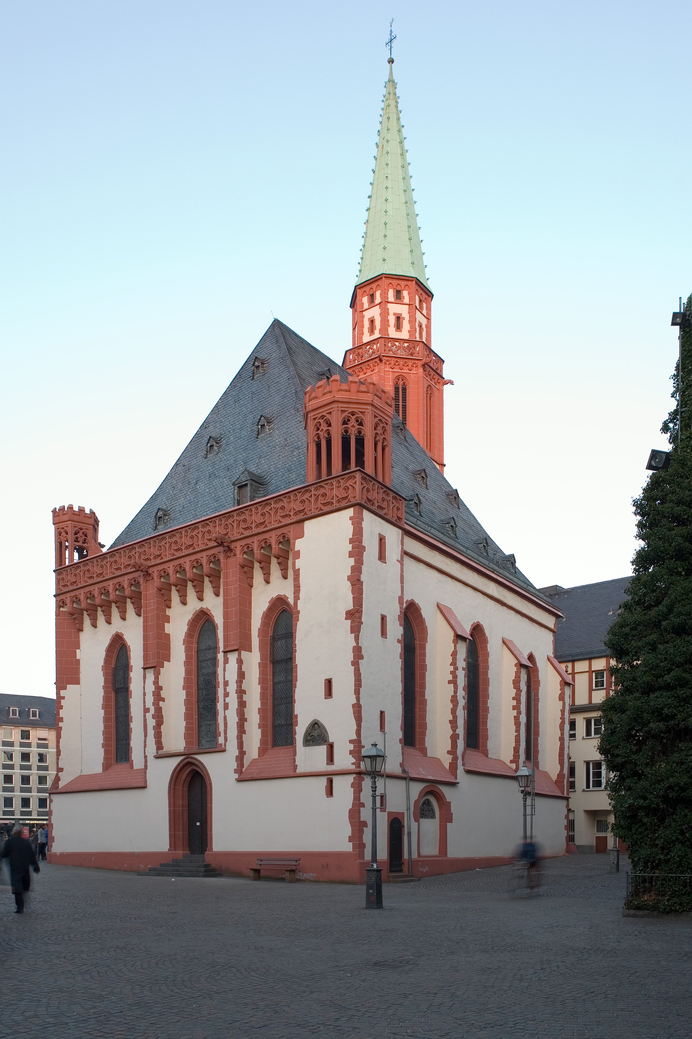 Frankfurt on the Main: Alte Nikolaikirche (Old Saint Nicholas Church) as seen from the Fahrtor